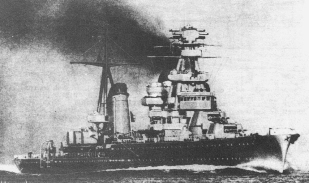 The Soviet cruiser Kirov.